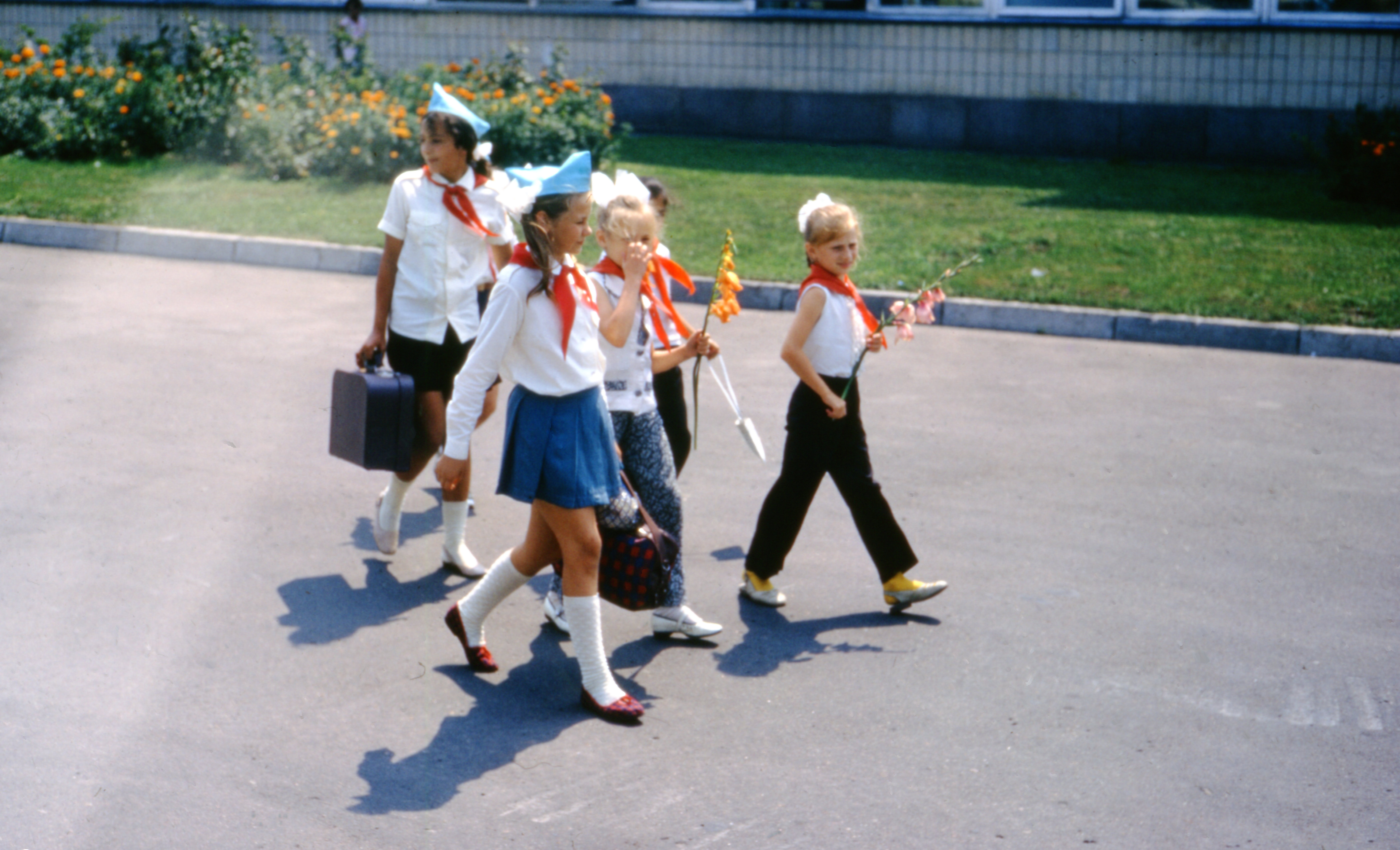 These images were taken by Thomas T. Hammond during his trip to the Soviet Union. This specific photo features children in pioneer uniforms in Saint Petersburg.